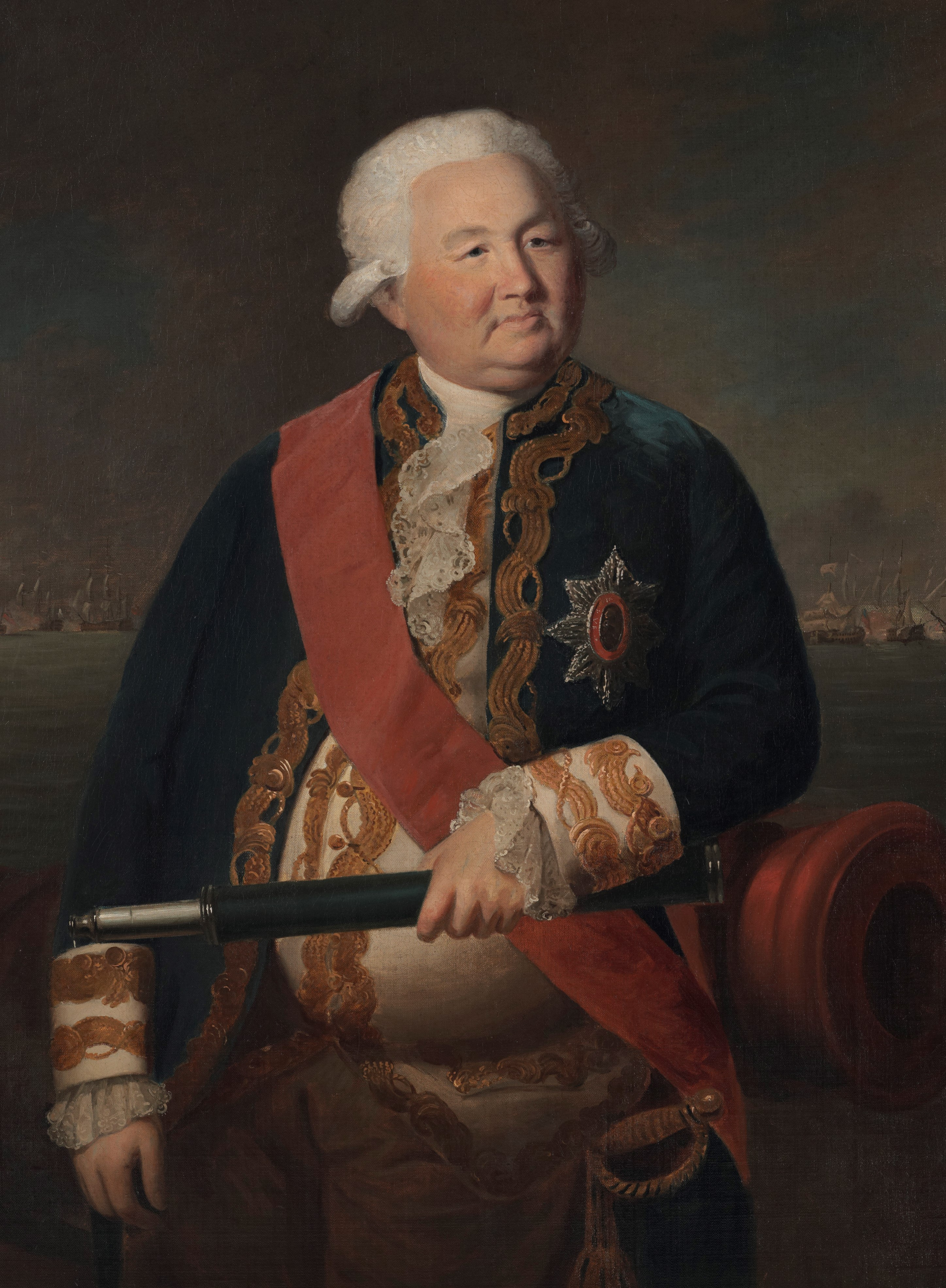 Portrait of Admiral Sir Edward Hughes, circa 1786, Great Britain, maker unknown. Gift of the family of Burton Boys, 2006. Te Papa (2006-0008-1)